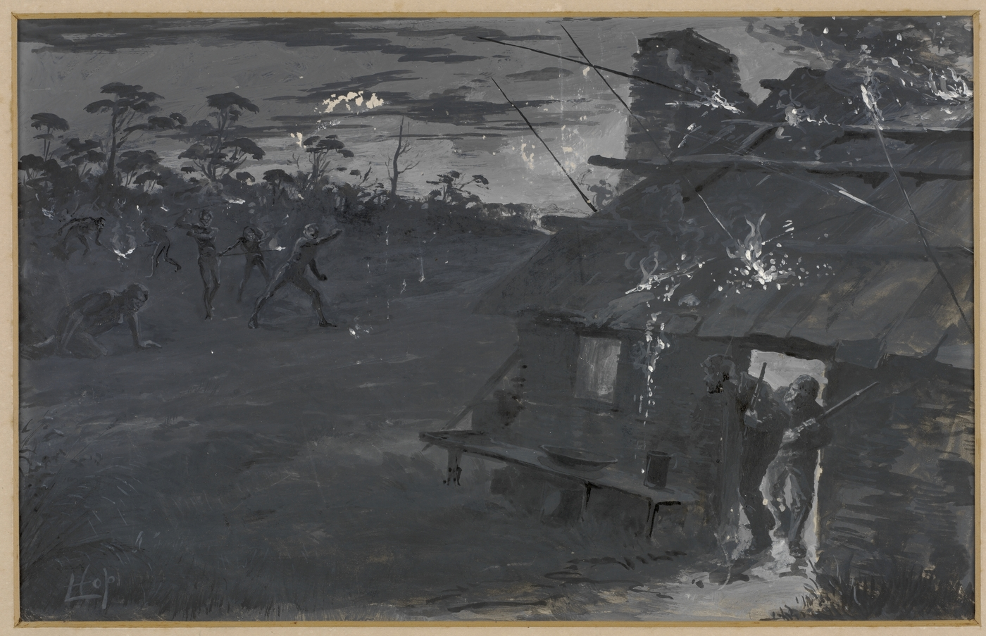 "Night Attack by Blacks", painting depicting two settlers defending their bark hut against an attack by Aborigines.